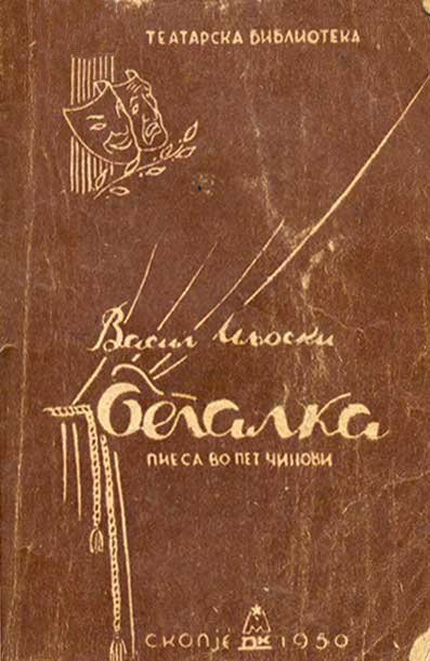 "Begalka", Vasil Iljoski